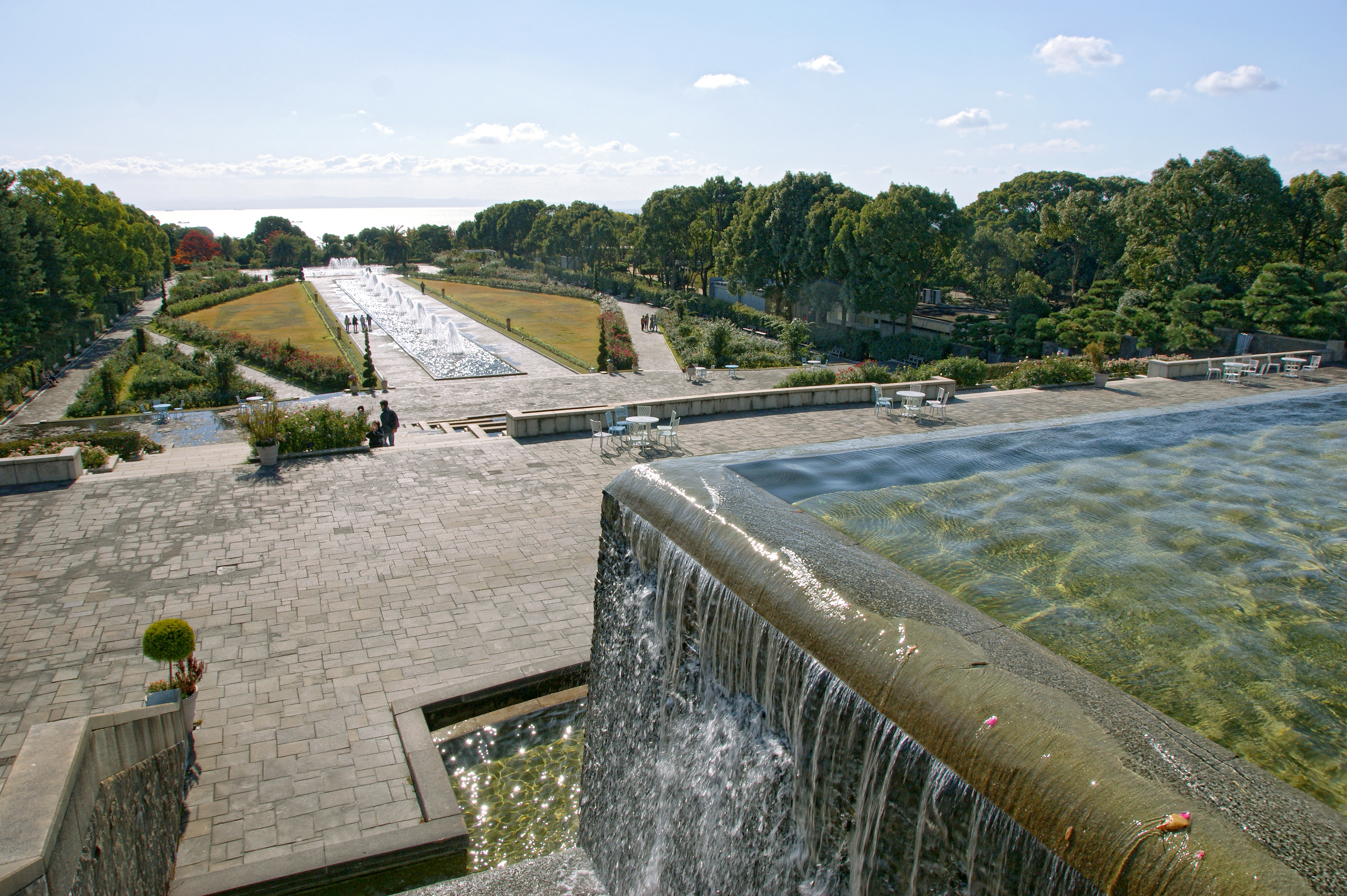 Suma Rikyu Park, Kobe, Hyogo prefecture, Japan